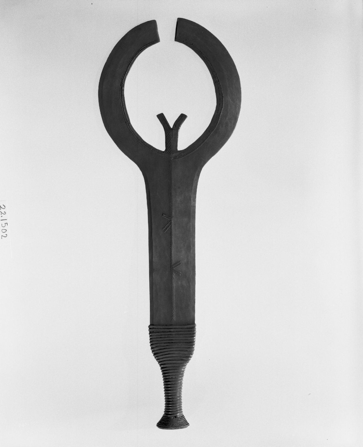 Executioner's Sword